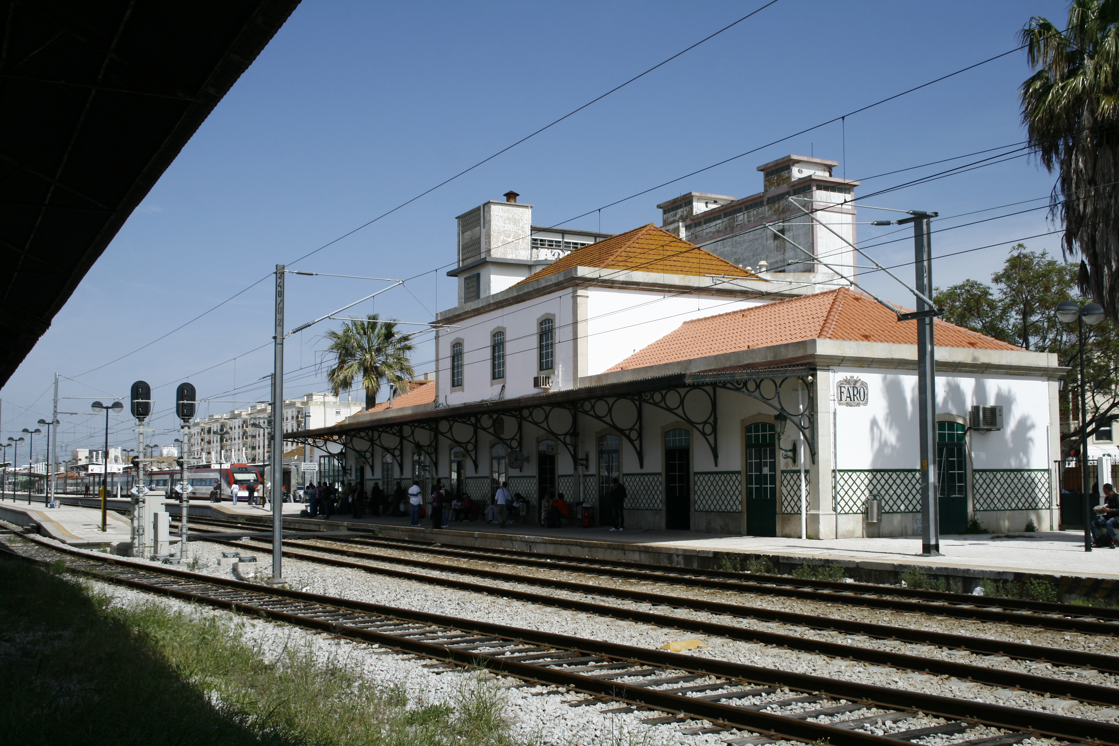 Faro Train Station, in the Algarve Line, in Southern Portugal.